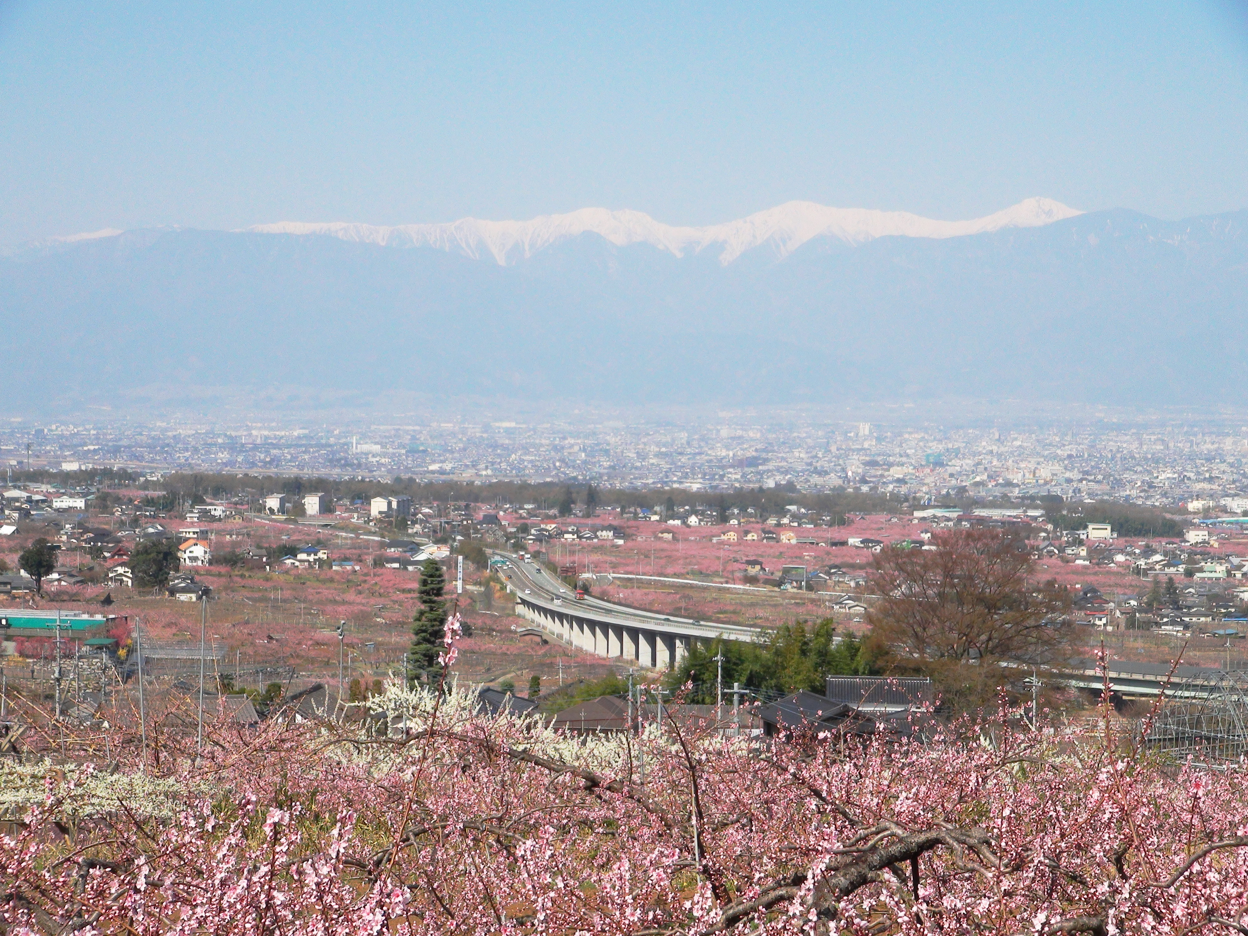 Kofu Basin Peach blossom and the Minami Alps